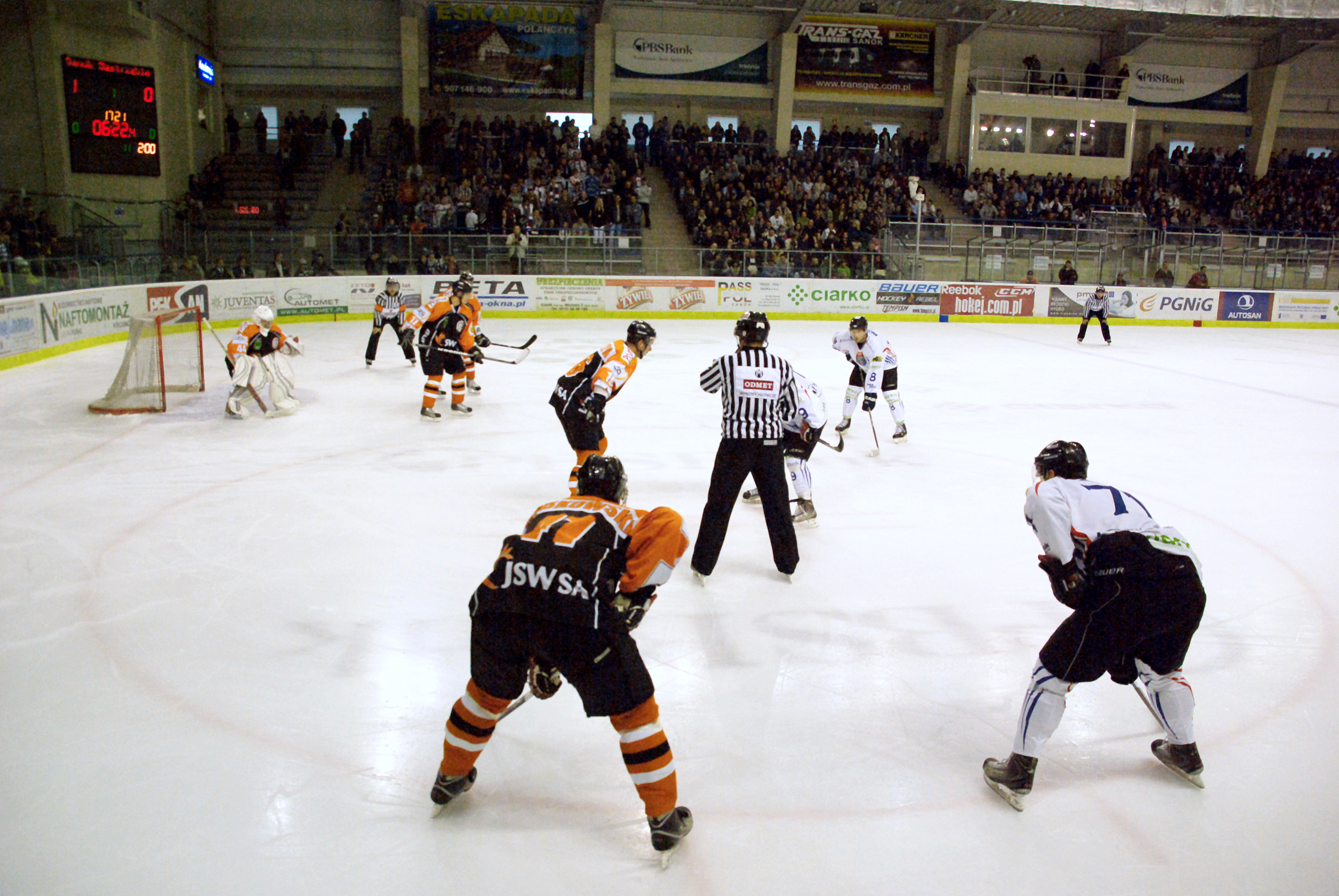 Ciarko KH Sanok - JKH Jastrzębie), 2010, September 19